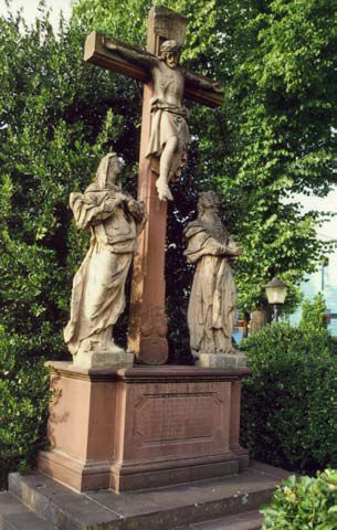 Der Kalvarienberg in Bergheim